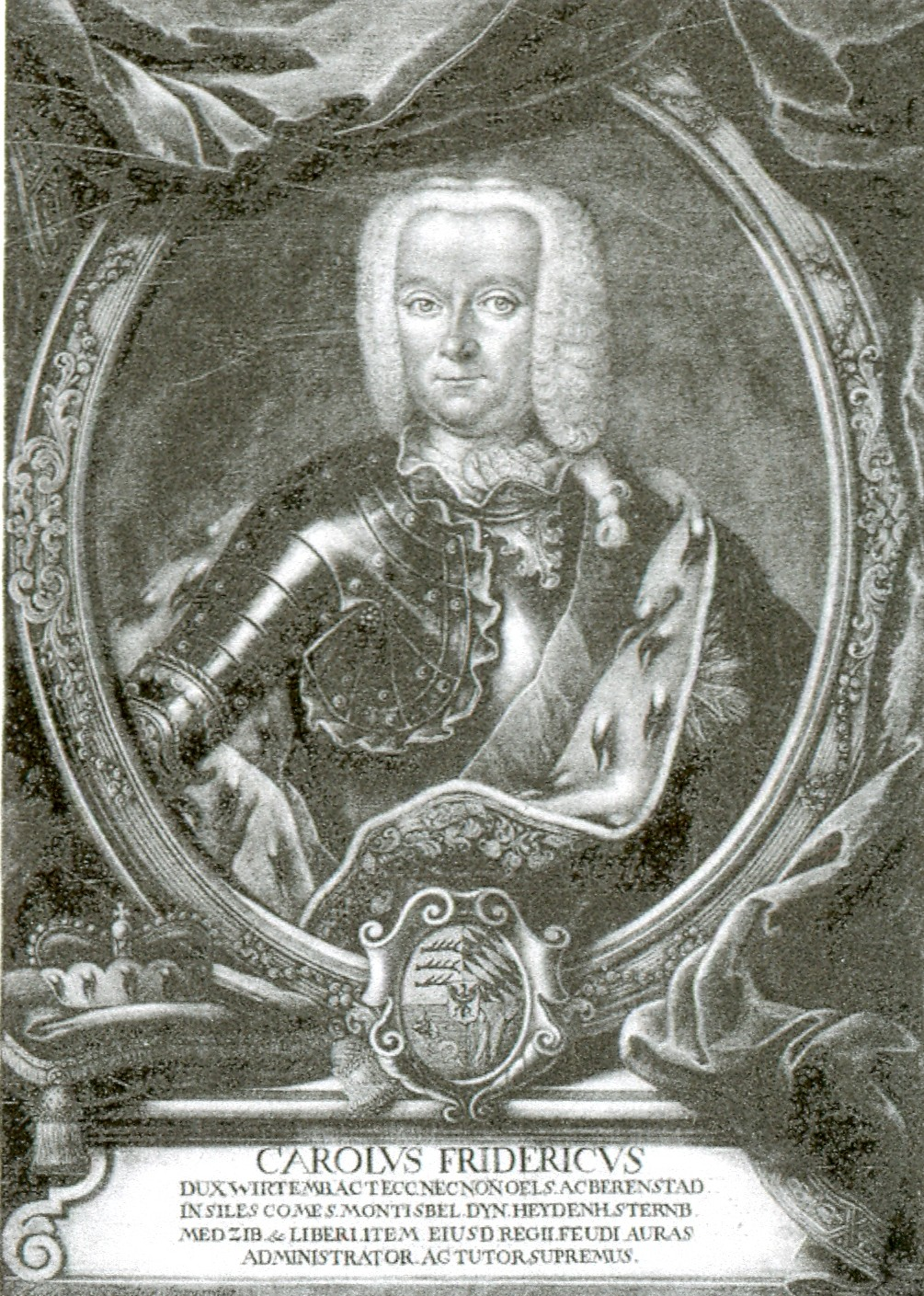 Portrait of Charles Frederick II, Duke of Württemberg-Oels (1690-1761)